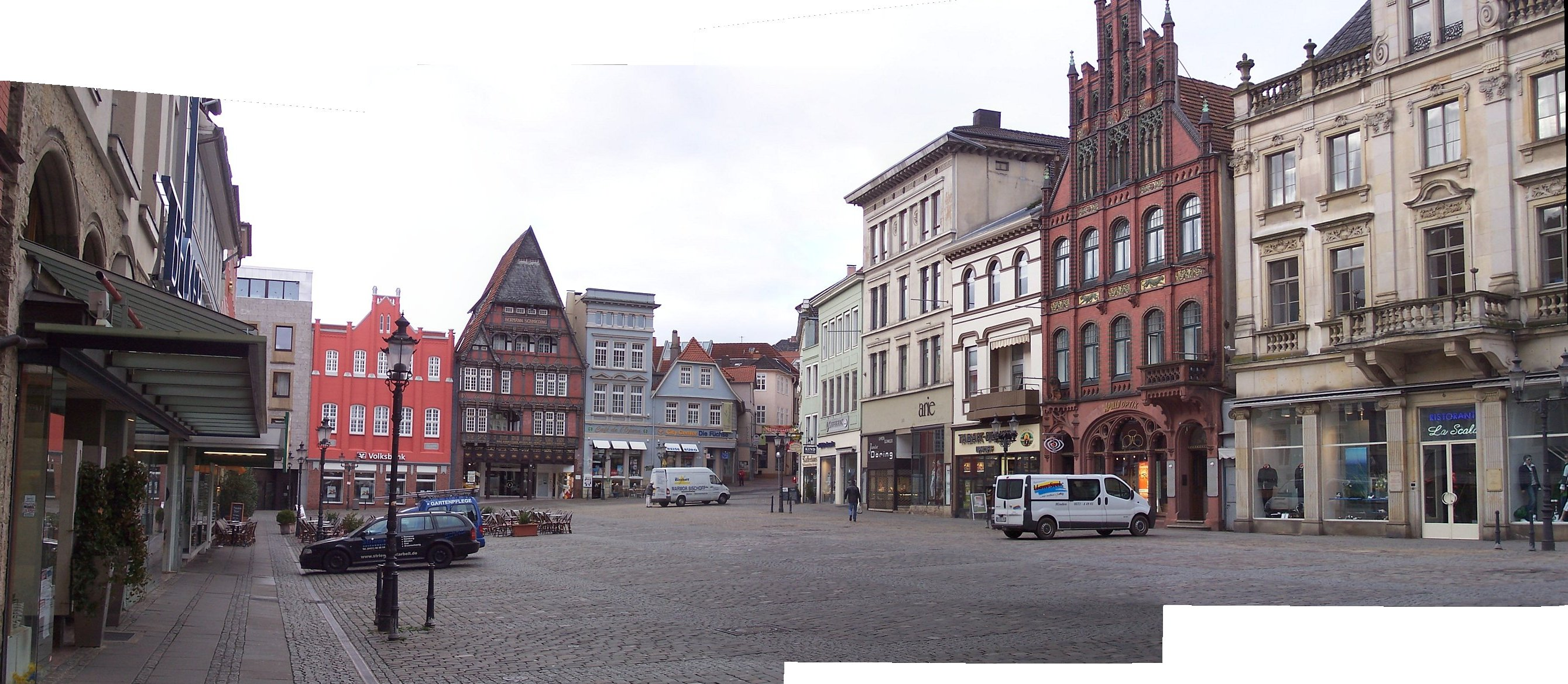 Market square Minden, Northrhine-Westphalia.